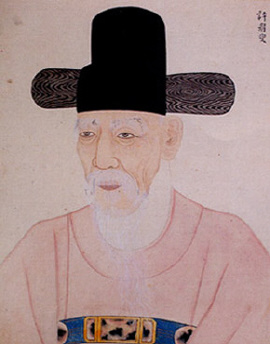 Portrait of Heo Mok. He was a leading Confucianist of the mid Joseon Dynasty. This piece held by Kyujanggak of Korea. Seoul.